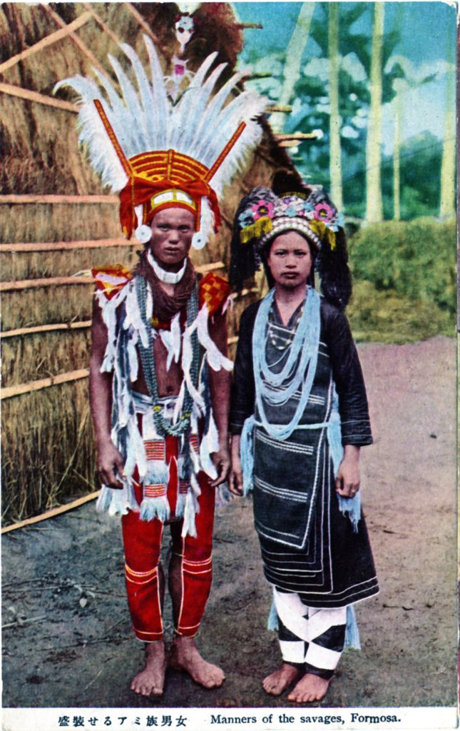 A postcard depicts the Amis, a group of the Formosan tribes.